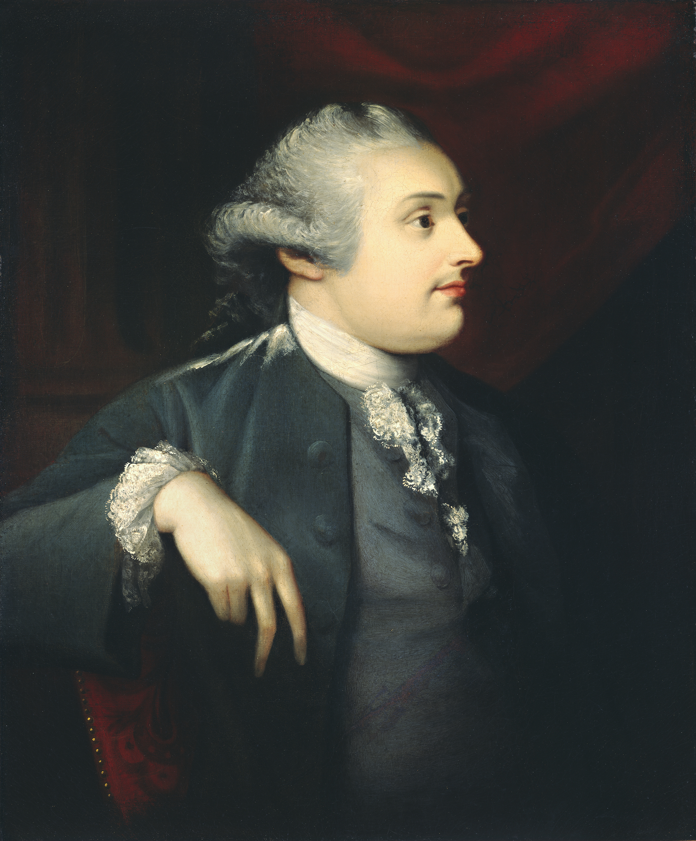 Portrait of William Cavendish-Bentinck (1738–1809)